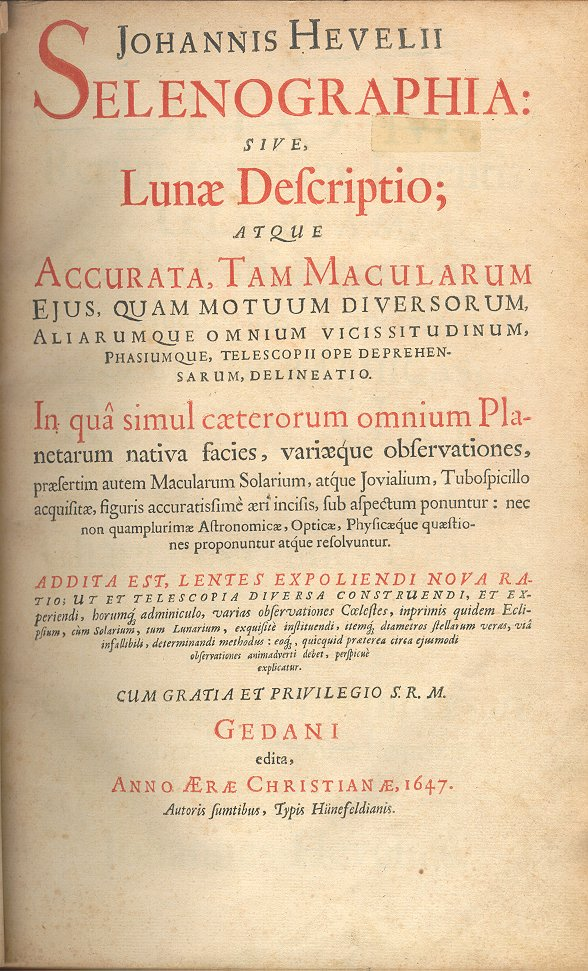 Title page of Selenographia, sive Lunae descriptio